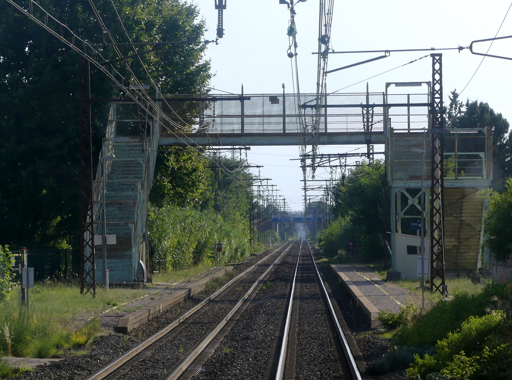 Sight Valergues-Lansargues railway station, between Nîmes and Montpellier, in Hérault, France.